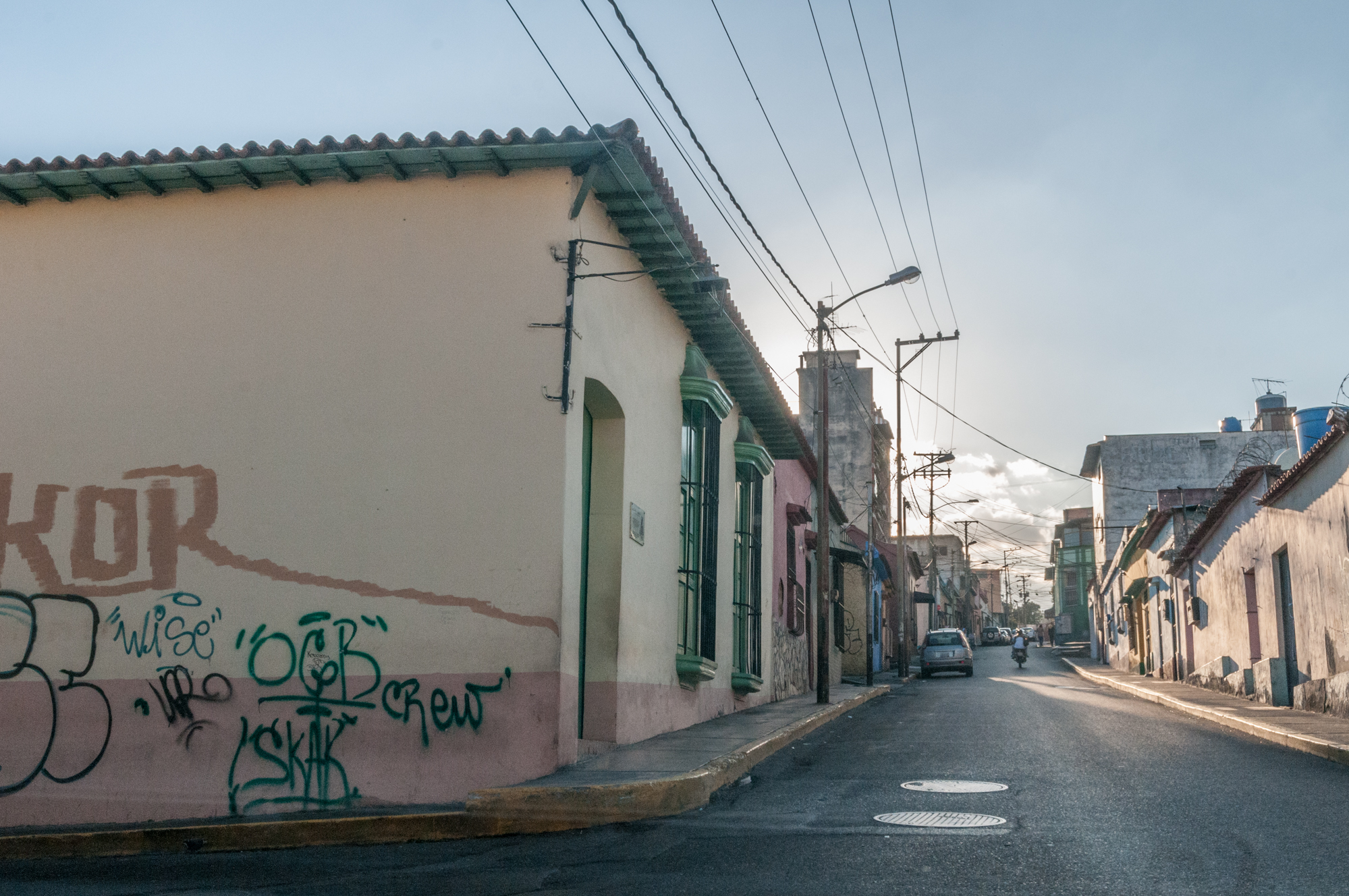 Arturo Michelena's house